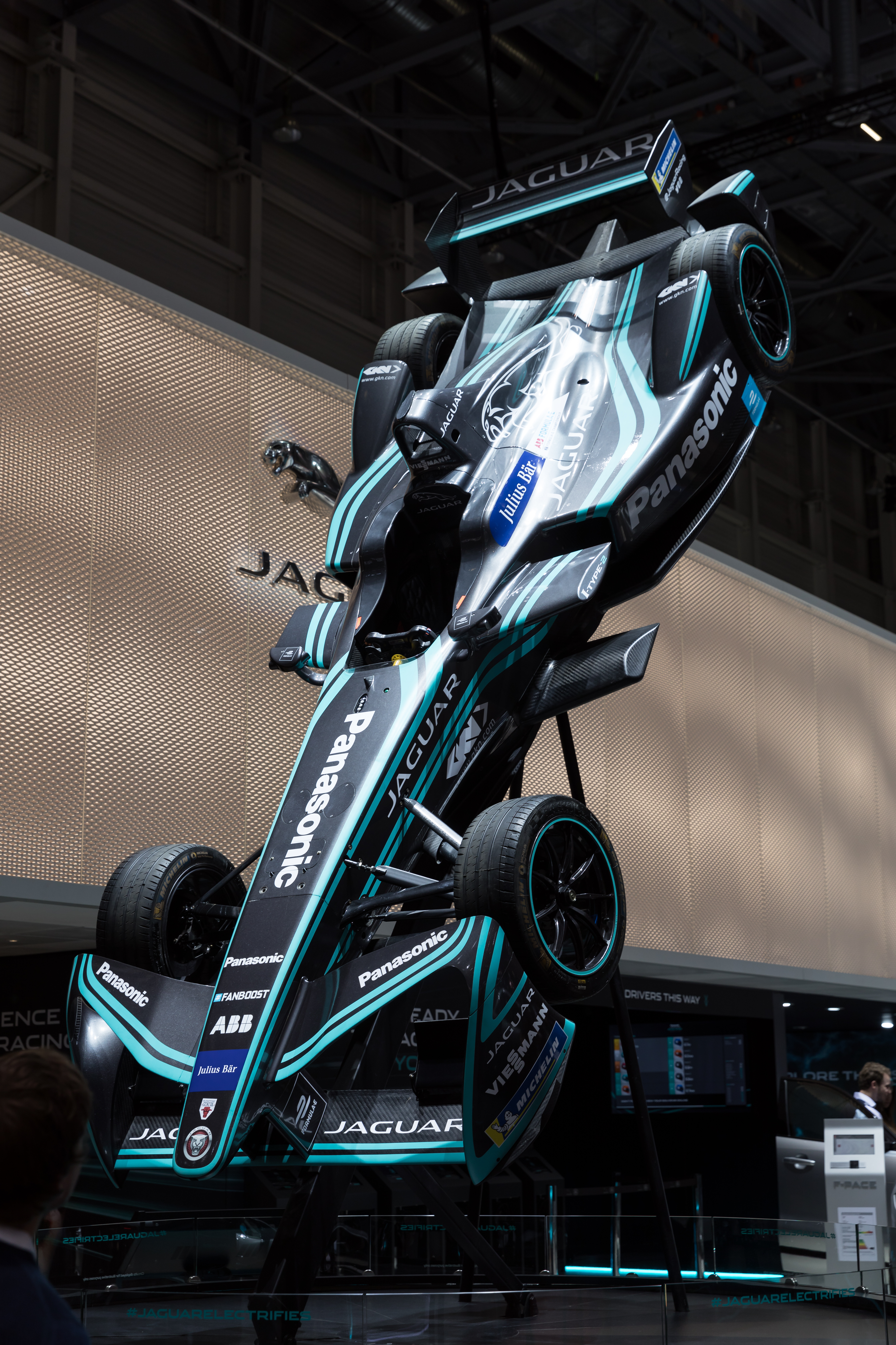 Geneva International Motor Show 2018